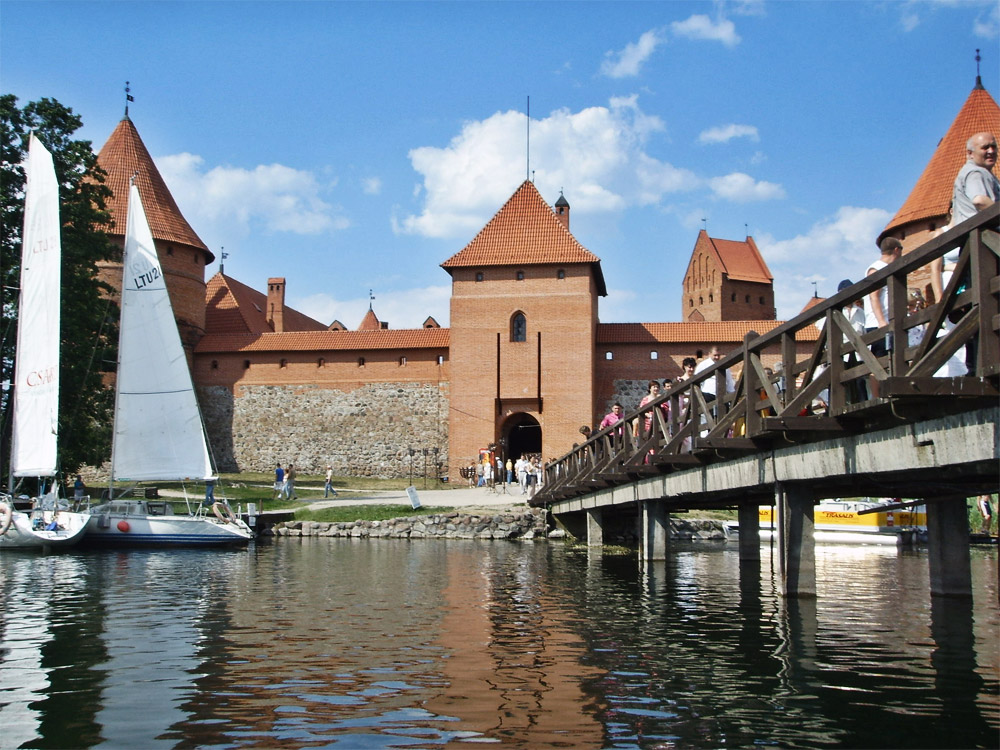 Bridge and castle of Trakai, Lithuania, July 2006